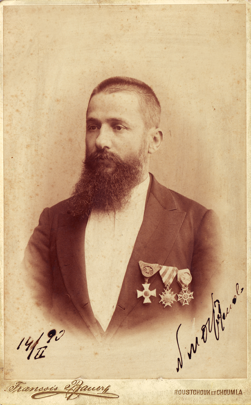 A photo of Nikola Obretenov with an autograph